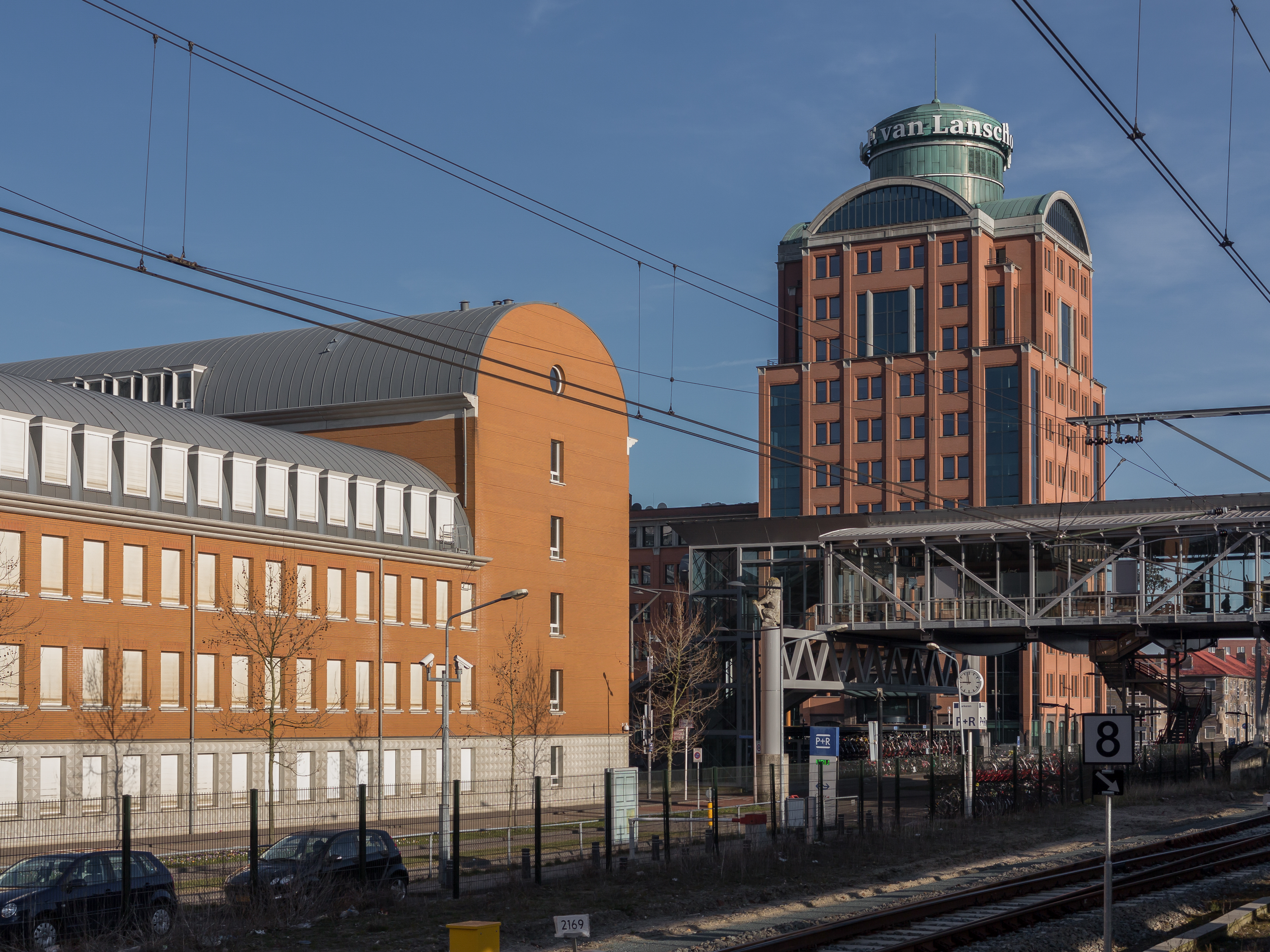 's-Hertogenbosch, office building: van Lanschot Bankiers